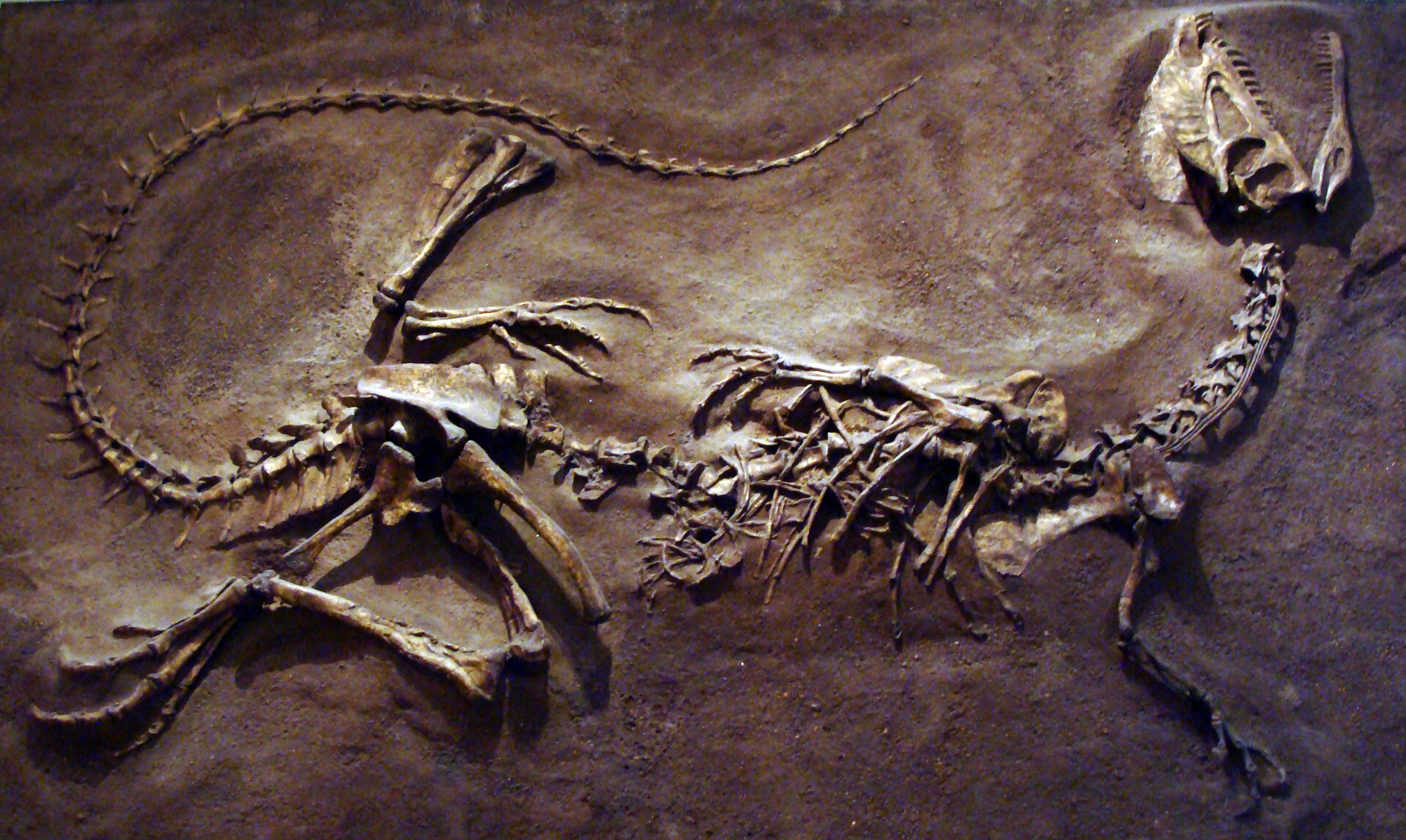 Dilophosaurus on display at the Royal Ontario Museum.